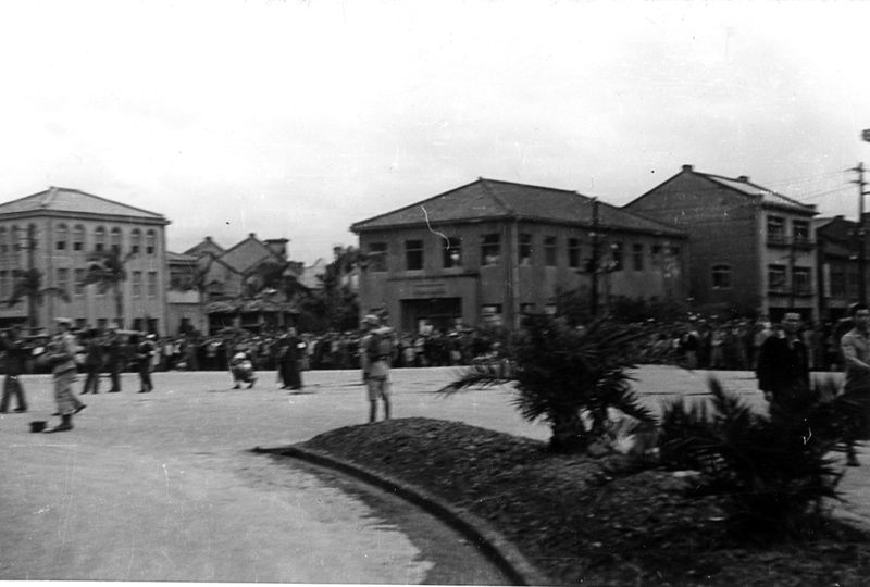 Chinese occupation forces at Taihoku, Formosa.